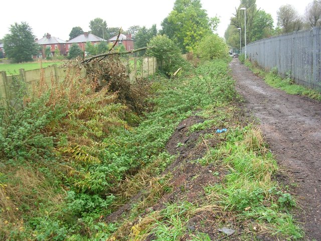 Nico Ditch Looking west along Nico Ditch near Levenshulme, Manchester. The public footpath seen here runs between the ditch on the left and Mellands Playing Field which lies beyond the fence on the right. About 200-300 metres of the ditch survive here and little elsewhere. This ditch is believed to have been a defensive earthwork dug in a single night as protection against the Danish invasion of 869-870 AD. It varied in width and depth, but averaged between 2 and 2.5 metres deep, and extended for over five miles in length between marshes in Fallowfield and Audenshaw. SJ88249487.